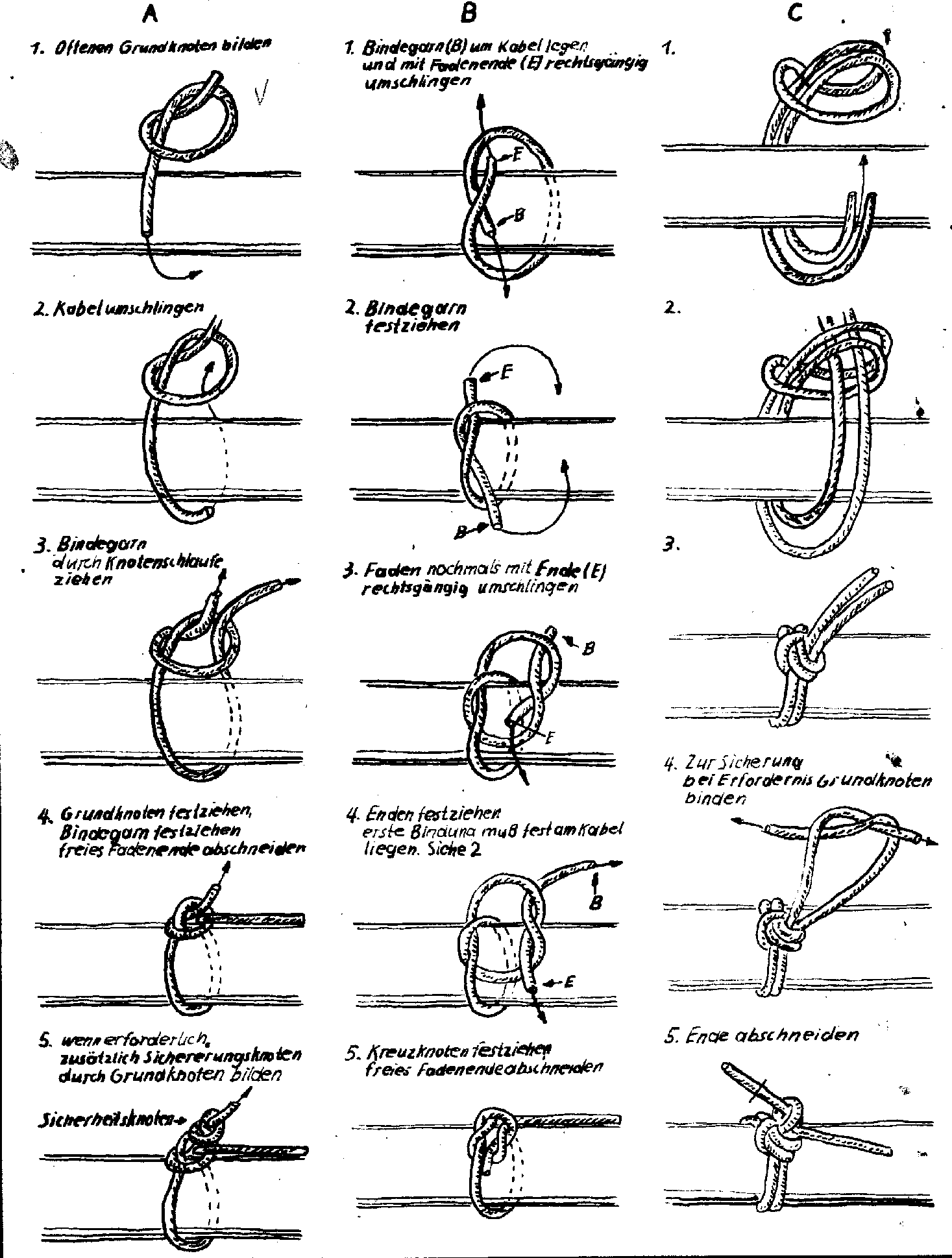 Diagram of starting knots for cable lacing